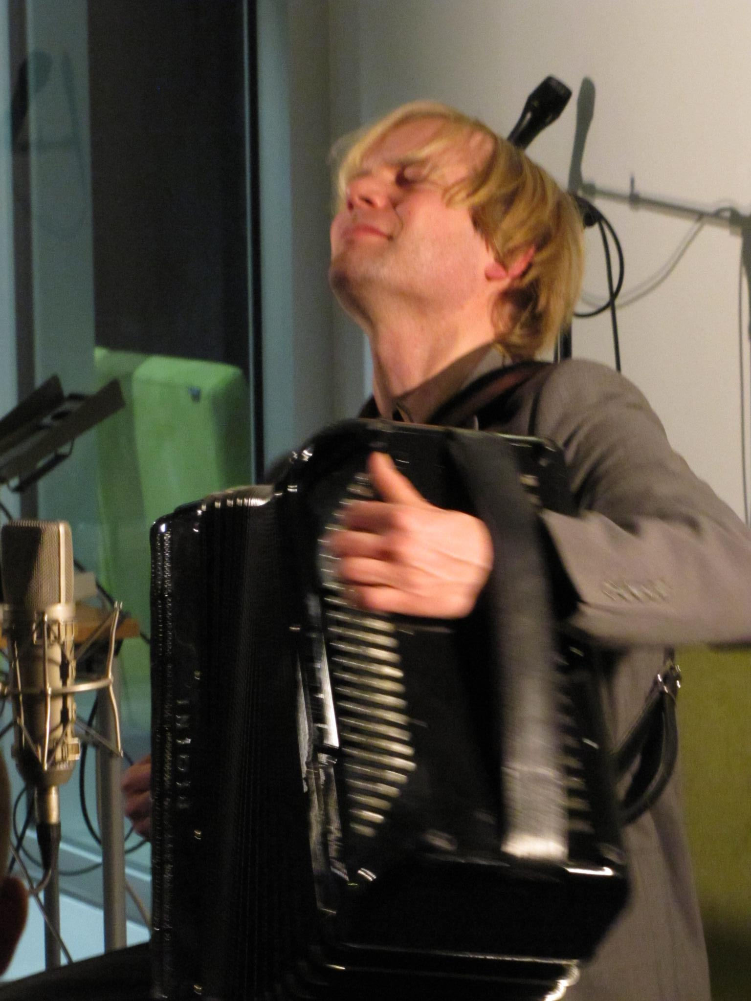 An accordionist playing in Houston, Texas